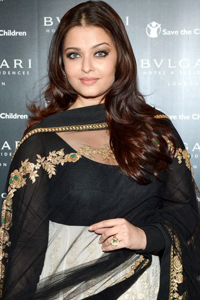 Aishwarya Rai the opening of the Bvlgari Hotel